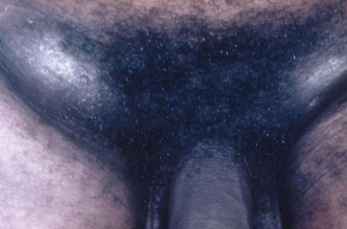 This photograph shows that a chancroid infection has spread to the inguinal lymph nodes, which have enlarged forming buboes. Caused by the sexually transmitted bacterium, Haemophilus ducreyi, in about half of the untreated chancroid cases, the lymph nodes in the groin develop into buboes that can enlarge until they burst through the overlying skin. Content Providers(s): CDC/ Susan Lindsley Creation Date: 1971 Copyright Restrictions: None - This image is in the public domain and thus free of any copyright restrictions. As a matter of courtesy we request that the content provider be credited and notified in any public or private usage of this image.